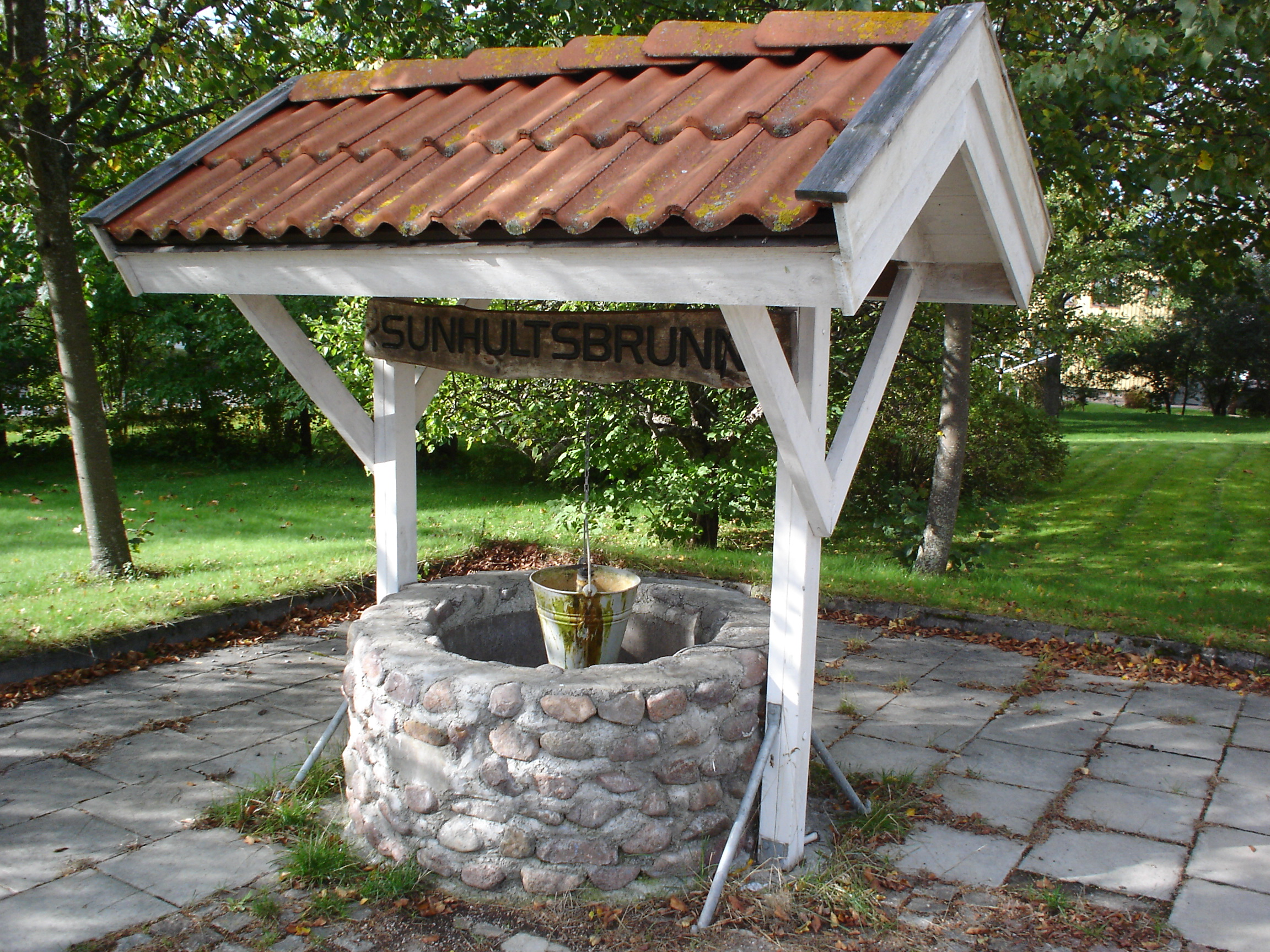 The main square in Sunhultsbrunn (also Sundhultsbrunn), Aneby municipality, Jönköping county, Småland, Sweden.